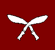 Shoulder Flash of the 6th Gurkha Rifles, a regiment of the British Army.